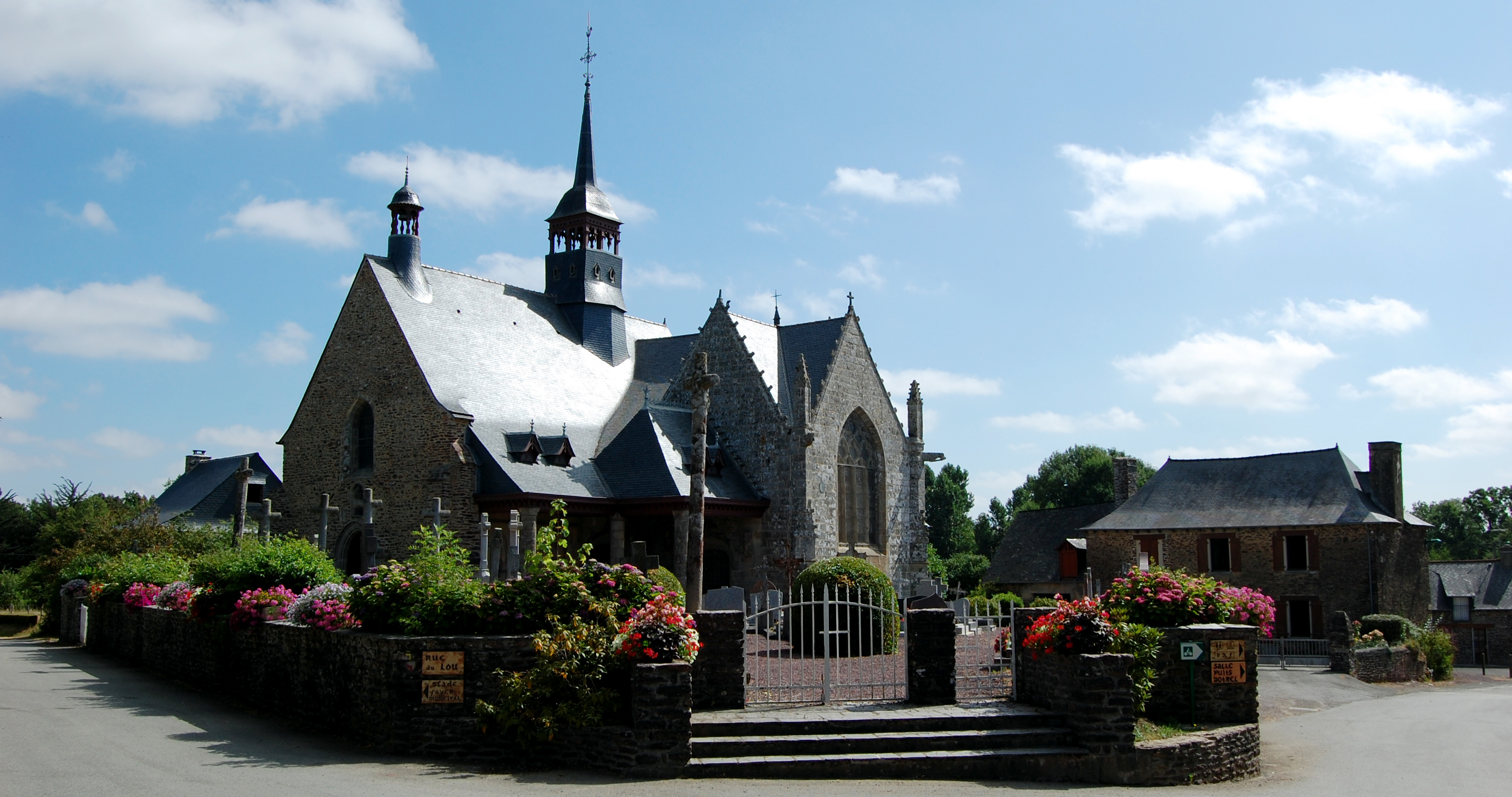 Church and presbytery of Saint-Léry